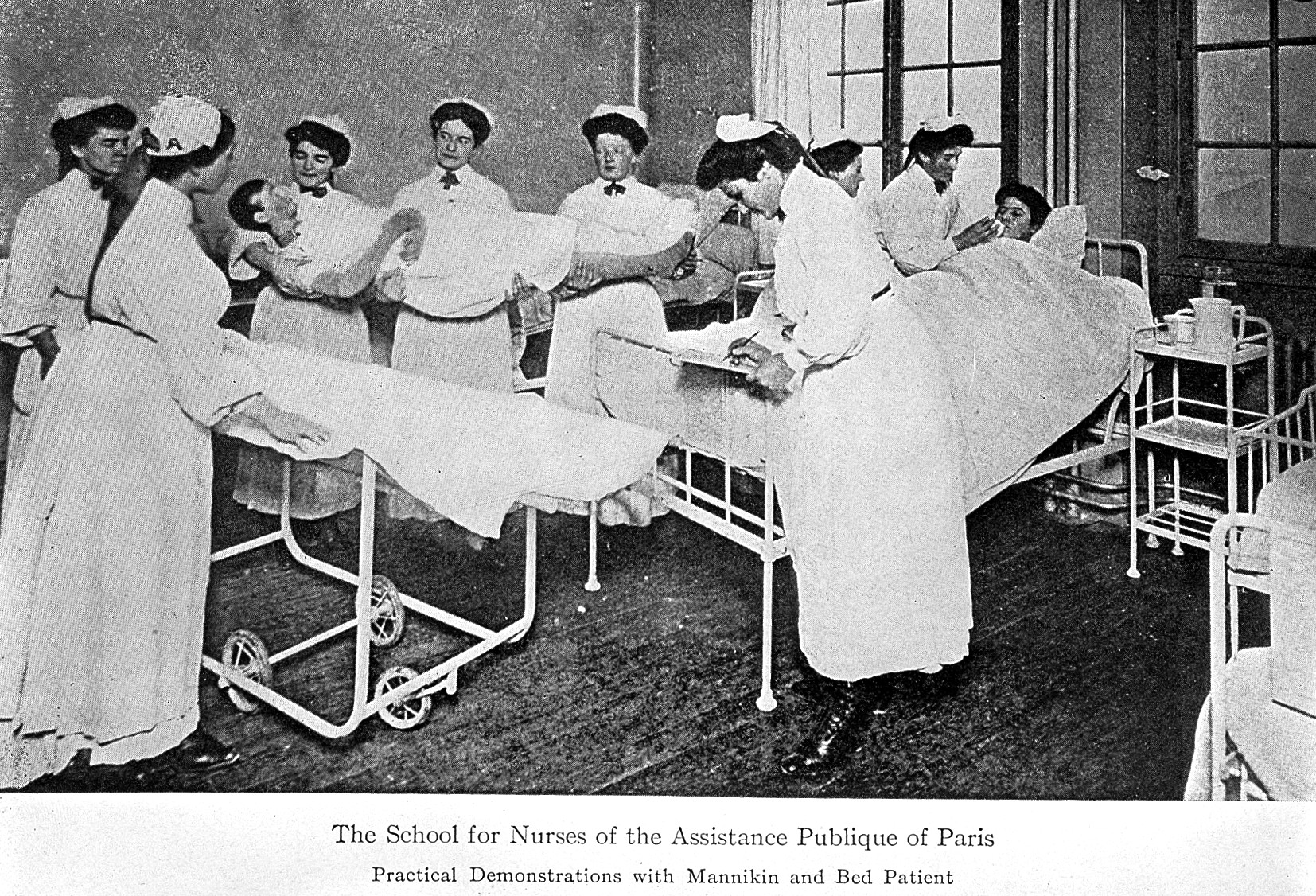 The school for nurses of the Assistance Publique of Paris General Collections Keywords: France; History of Nursing